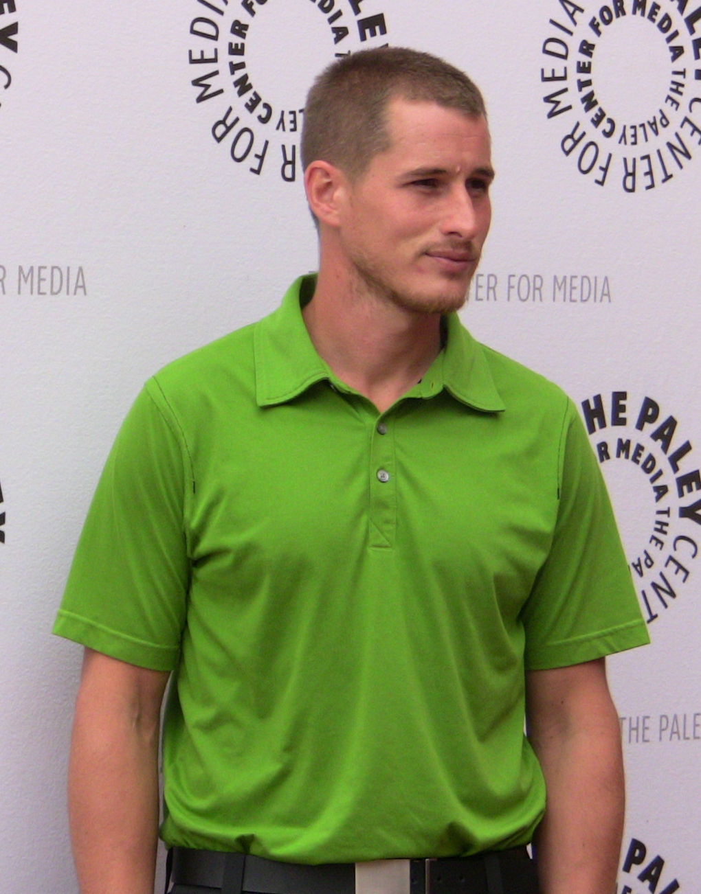 Canadian actor Brendan Fehr.